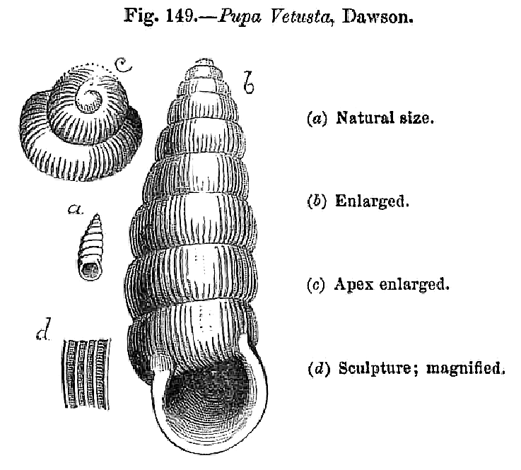 Historical drawing of shell of the extinct land snail Dendropupa vetusta (DAWSON) (therein referred to as Pupa vetusta), preserved in sedimentary infill of lycopsid tree stumps of the Joggins coal measures (Joggins Formation, Early Pennsylvanian), Nova Scotia (original figure slightly modified).